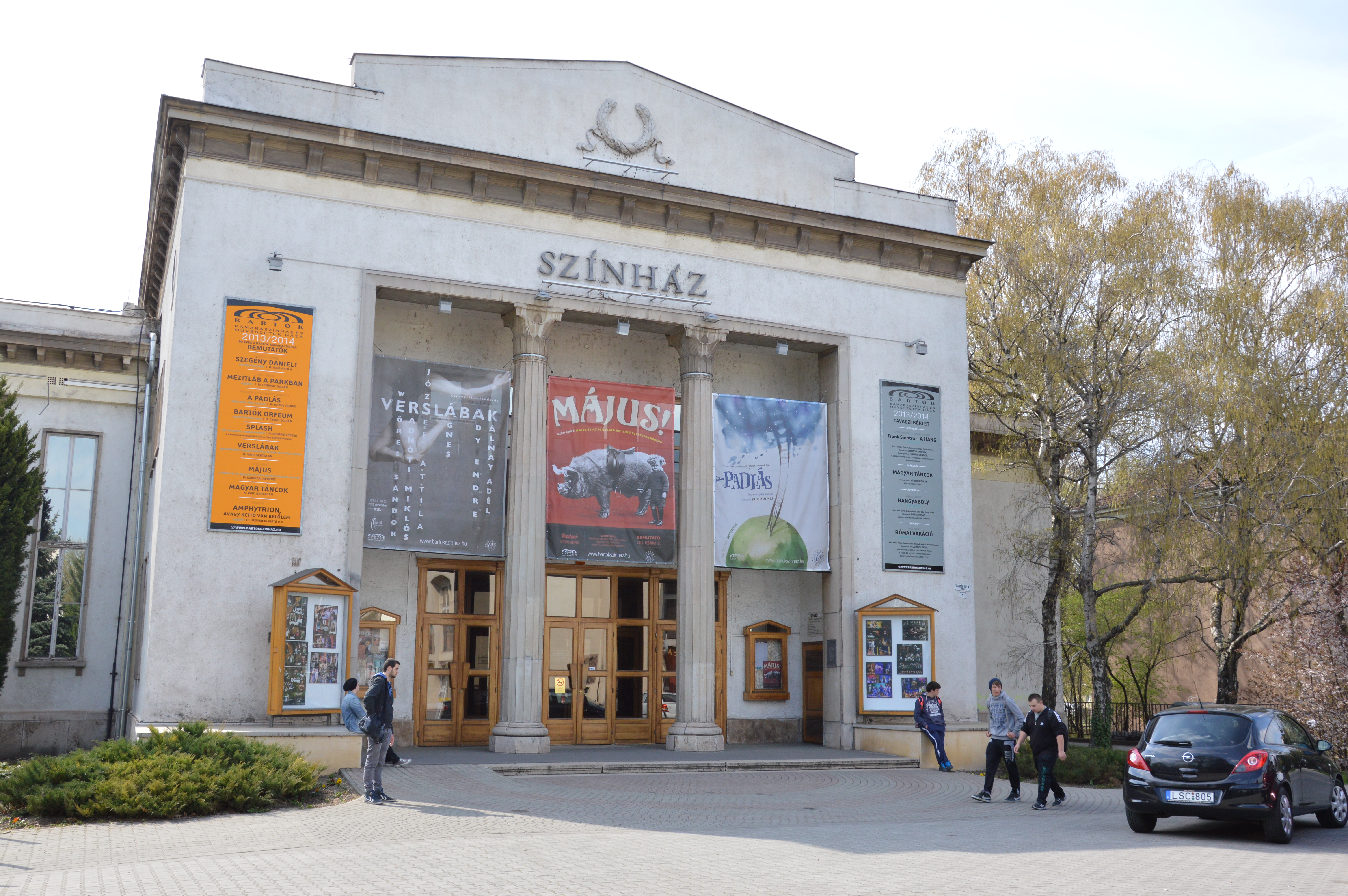 Bartók Béla Theatre in Dunaújváros. Built in 1952-53. Architect: Dezső Kiss